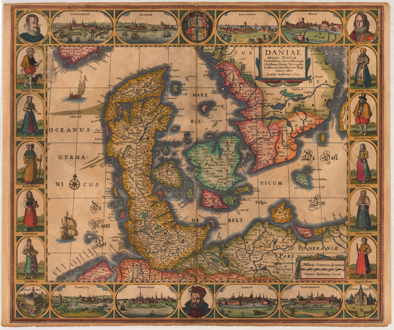 Antique map of Denmark by Janssonius J: Daniae Regni Typum - Janssonius J. ,(1630)